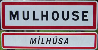 Mulhouse (Alsace, France) : shield at the entry of the city